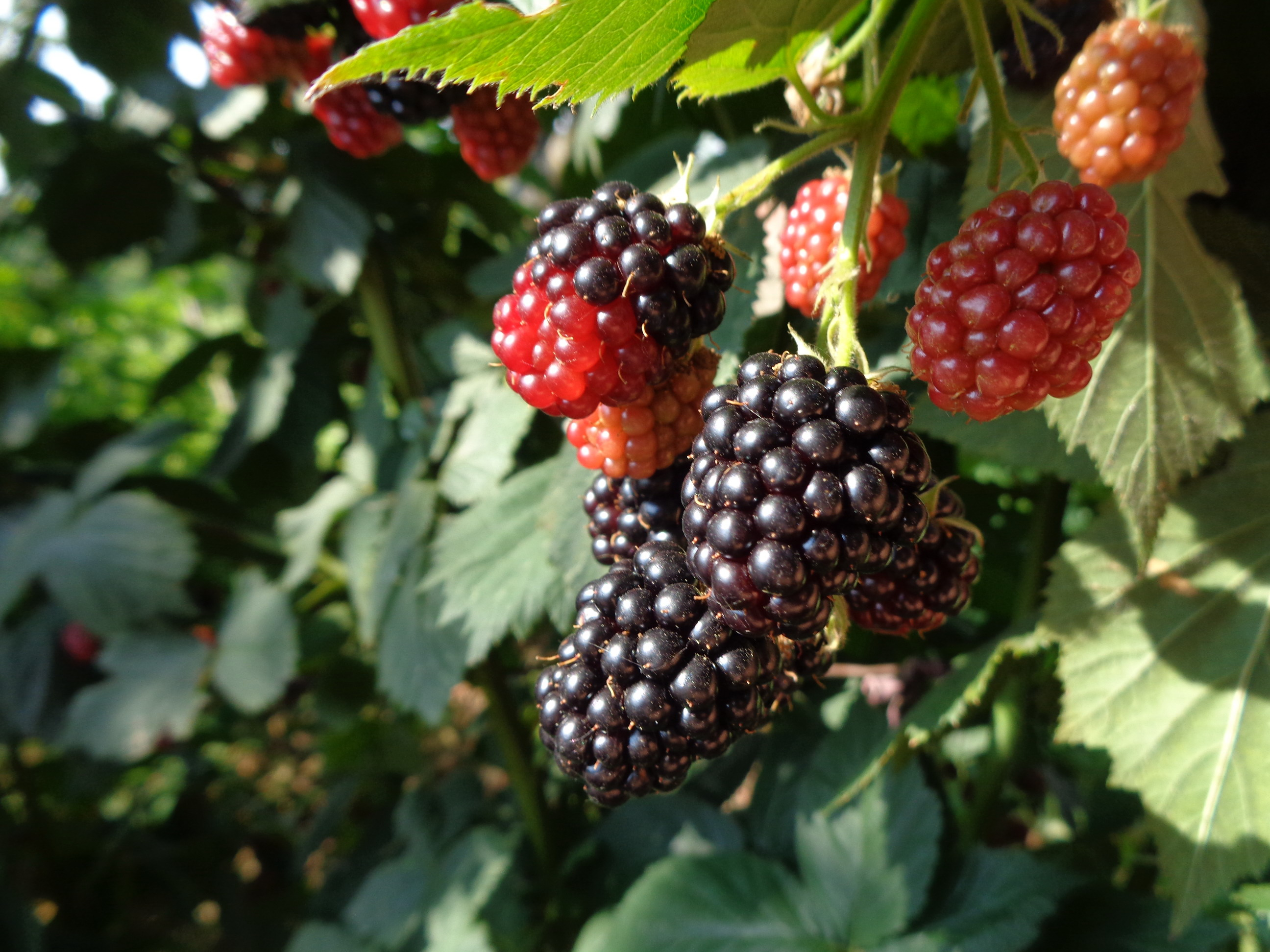 Blackberries, grown in Medjimurje County, northern Croatia, ripening on low hanging stemsHrvatski: Kupine, uzgojene u Međimurskoj županiji, sjeverna Hrvatska, dozrijevaju na niskim stabljikama